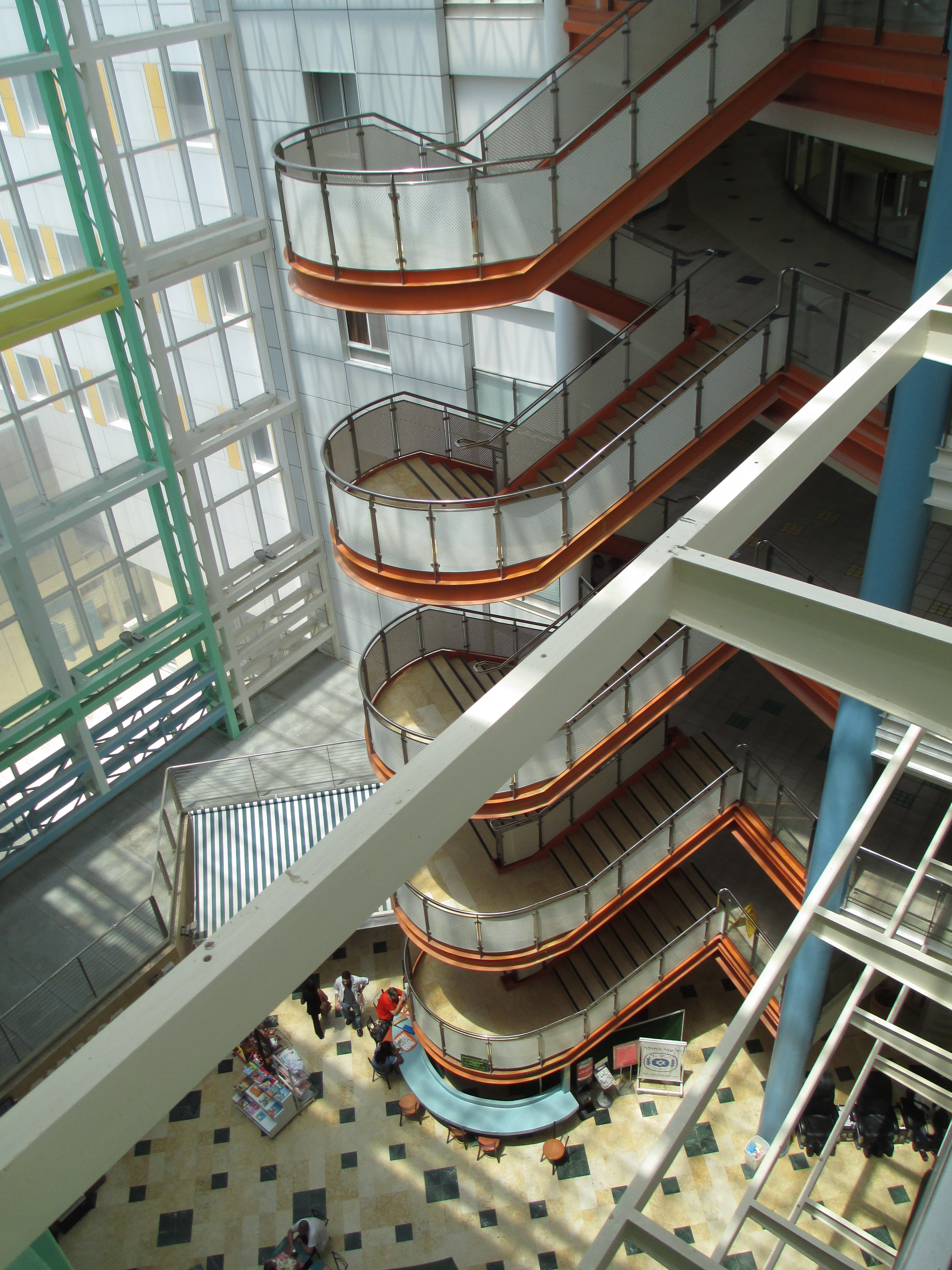 Nahariya Hospital